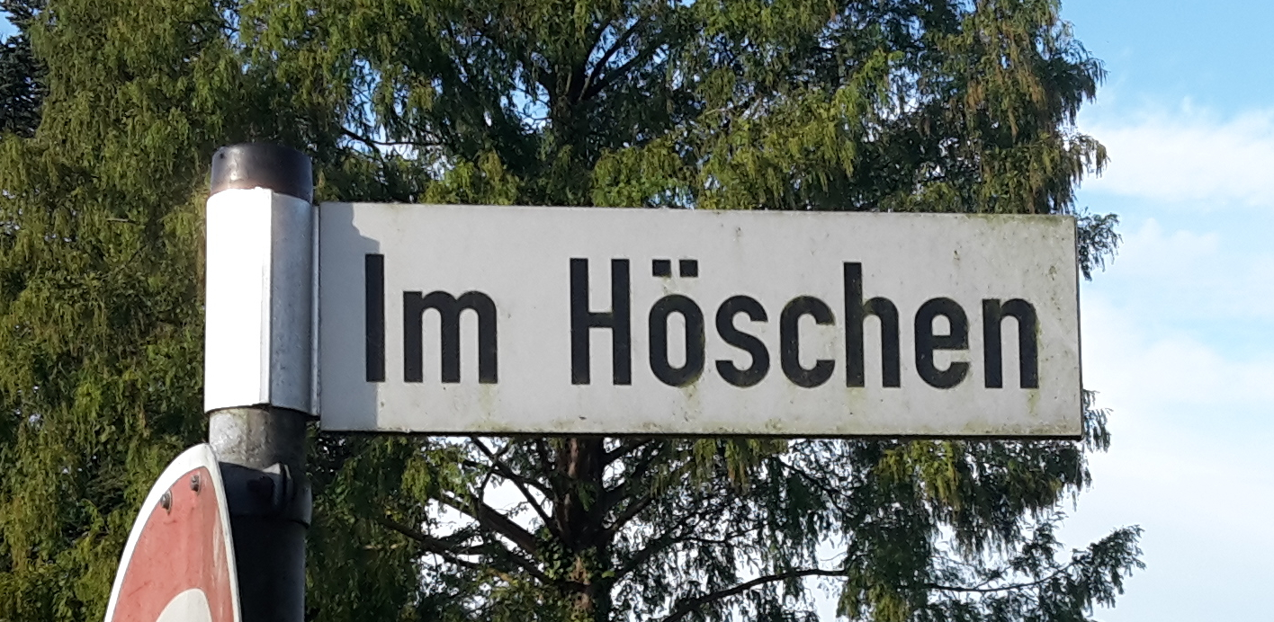 Street name sighn „Im Höschen“ 25469 Halstenbek, Germany.